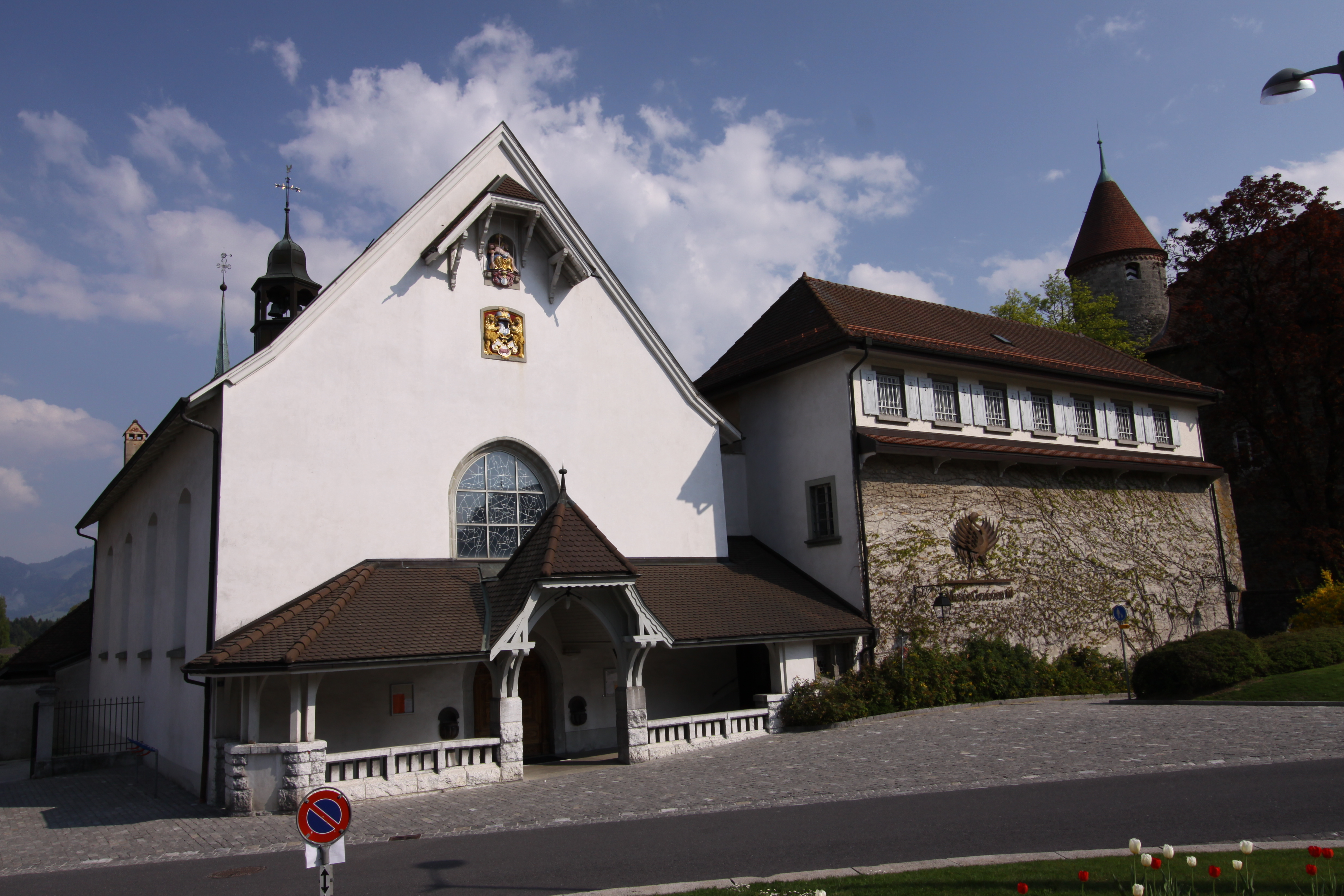 Chapel of Our Lady of Compassion, Rue du Marché 2a-4, Bulle